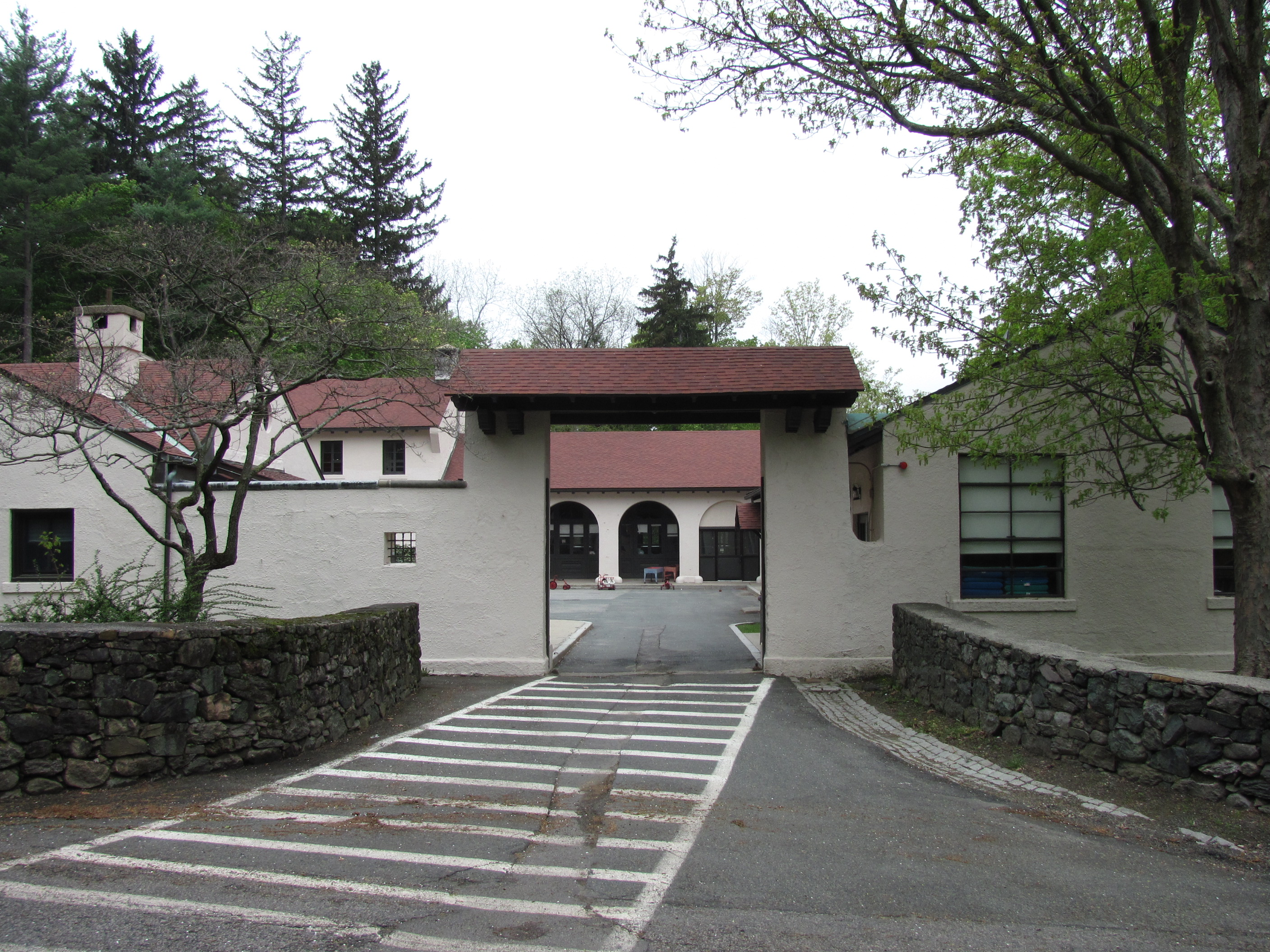 Dexter School, Brookline Massachusetts